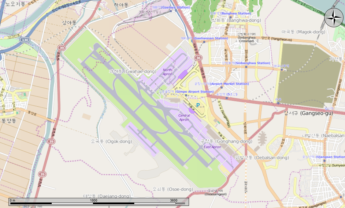 Gimpo International Airport shown on an OpenStreetMap. Copied from the Marble program.